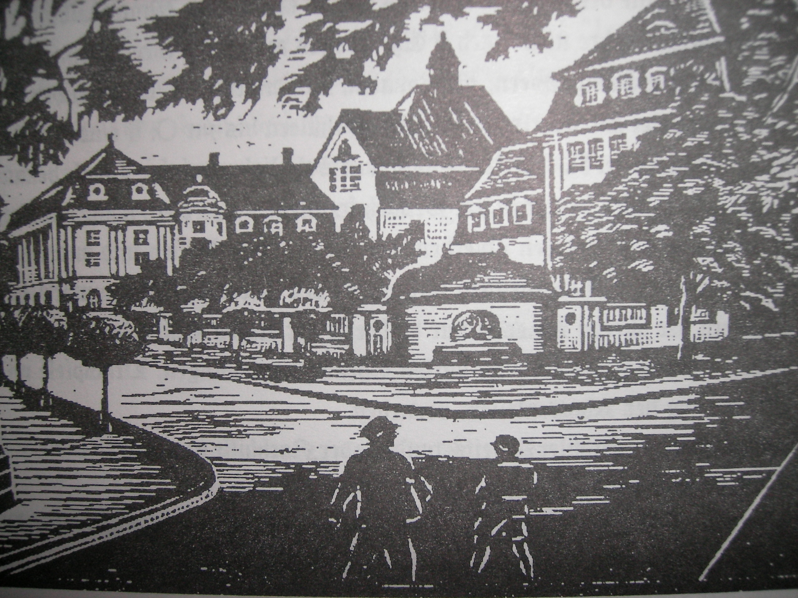 Oberrealschule mit Reformrealgymnasium